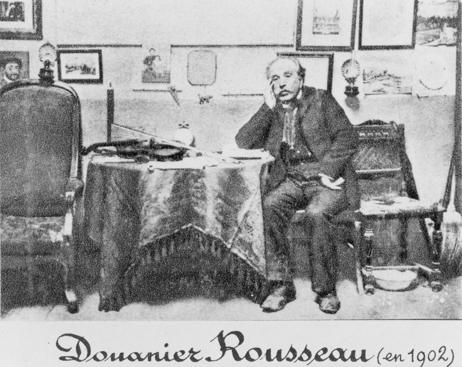 Douanier Rousseau (in 1902). Henri Rousseau, full-length portrait, seated at table, facing front.